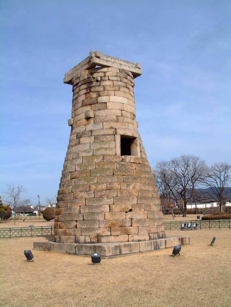 Cheomseongdae, Gyeongju, s. Korea. K. Korlević